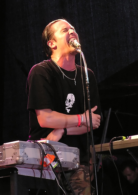 Mike Patton performing with Fantômas at The Quart Festival, Norway, 2005-07-09.